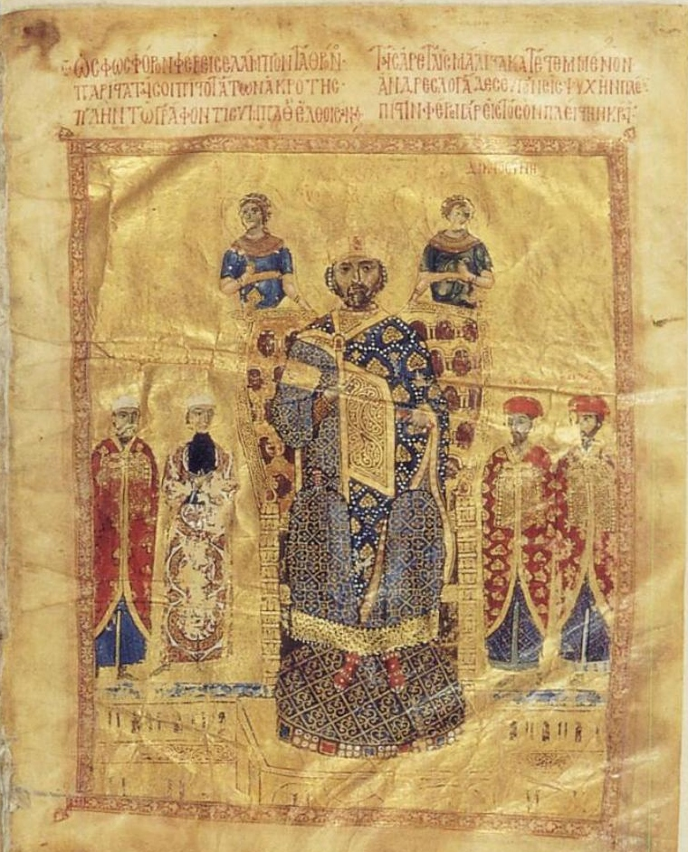 The Byzantine emperor Nicephorus III (or possibly Michael VII) and the chief four officials of his court. From left: the proedros and epi tou kanikleiou, the (eunuch) prōtoproedros and prōtovestiarios, the emperor flanked by Truth and Justice, the proedros and dekanos, and the proedros and megas primikērios.